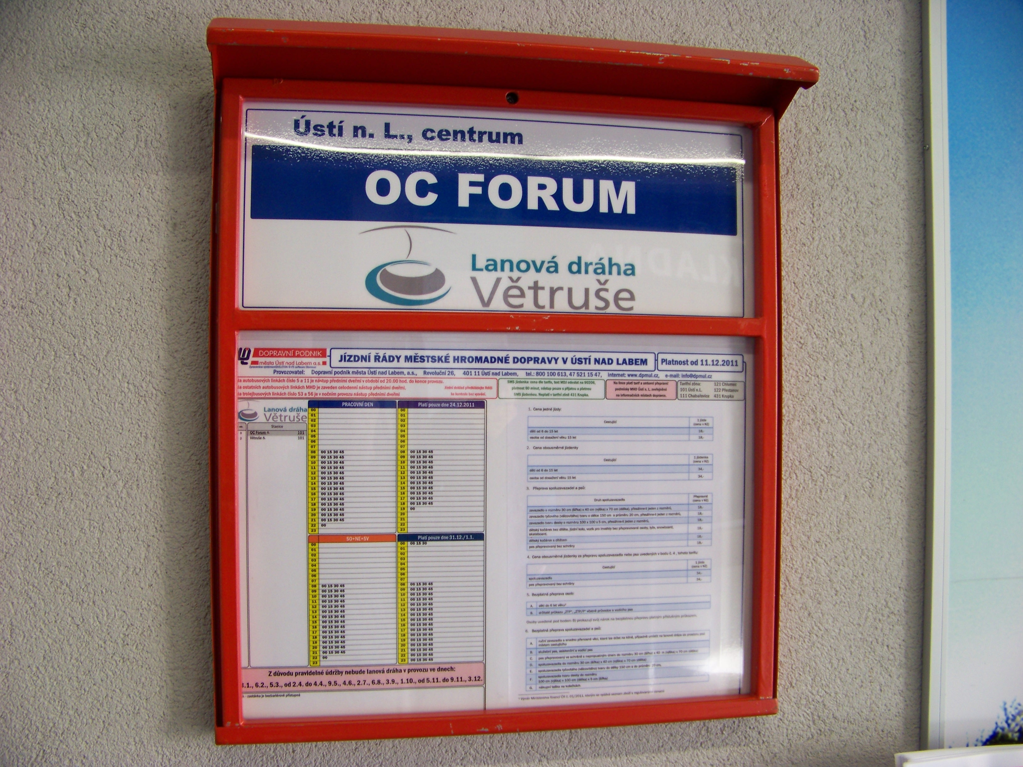 Ústí nad Labem, the Czech Republic. Forum shopping centre, a cableway station, a timetable.